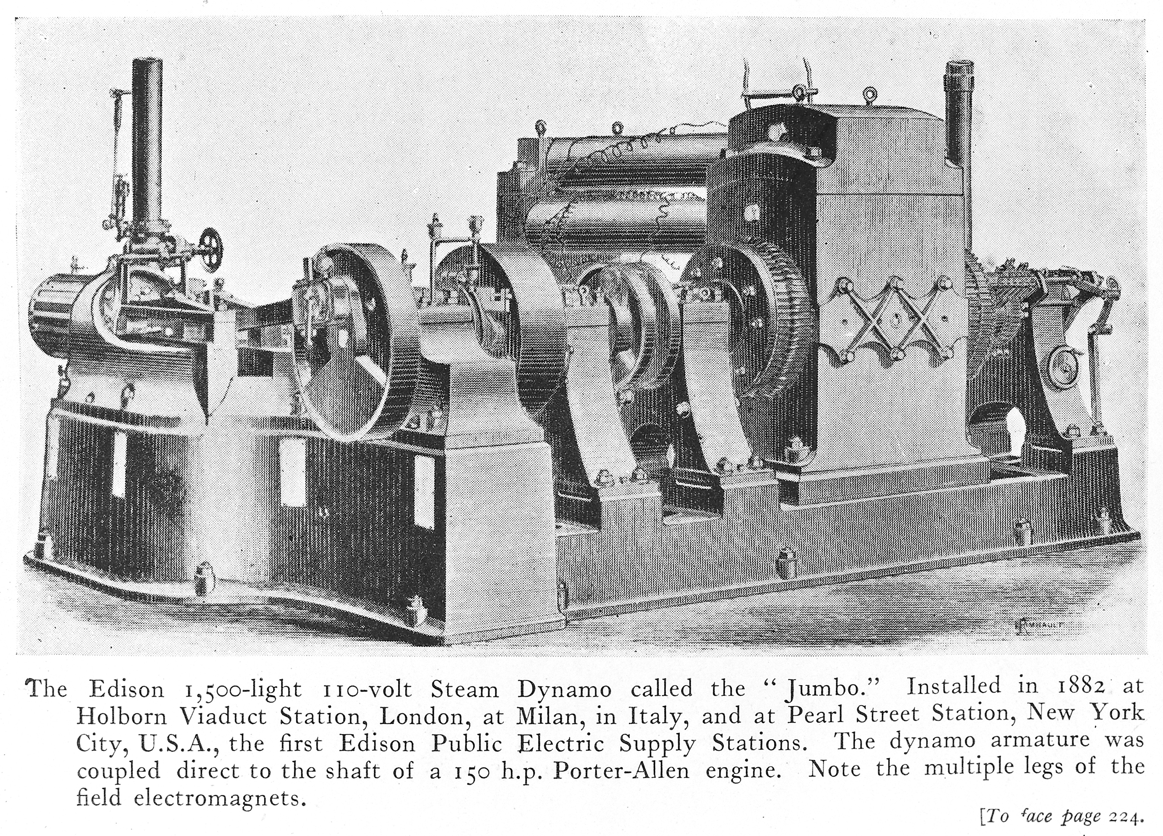 The Edison 1,500 light 110 volt steam dynamo called the "Jumbo", installed in 1882 at Holborn Viaduct station and Pearl Street Station, New York City, the first Edison X Public Electric Power Stations. Wellcome Images Keywords: Electricity